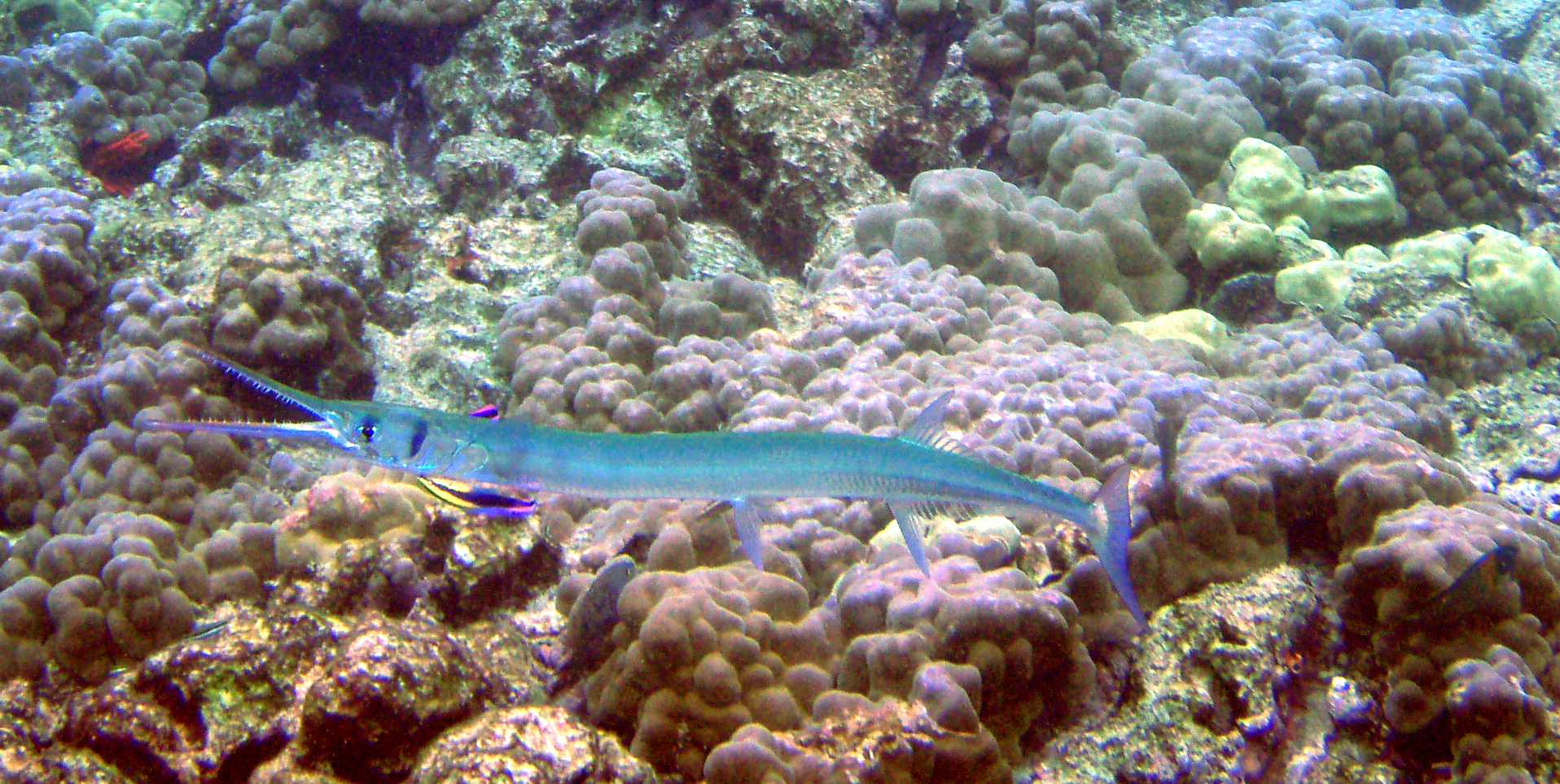 A Needlefish is being cleaned by Rainbow cleaner wrasse, Labroides phthirophagus. on a reef in Hawaii at cleaning station